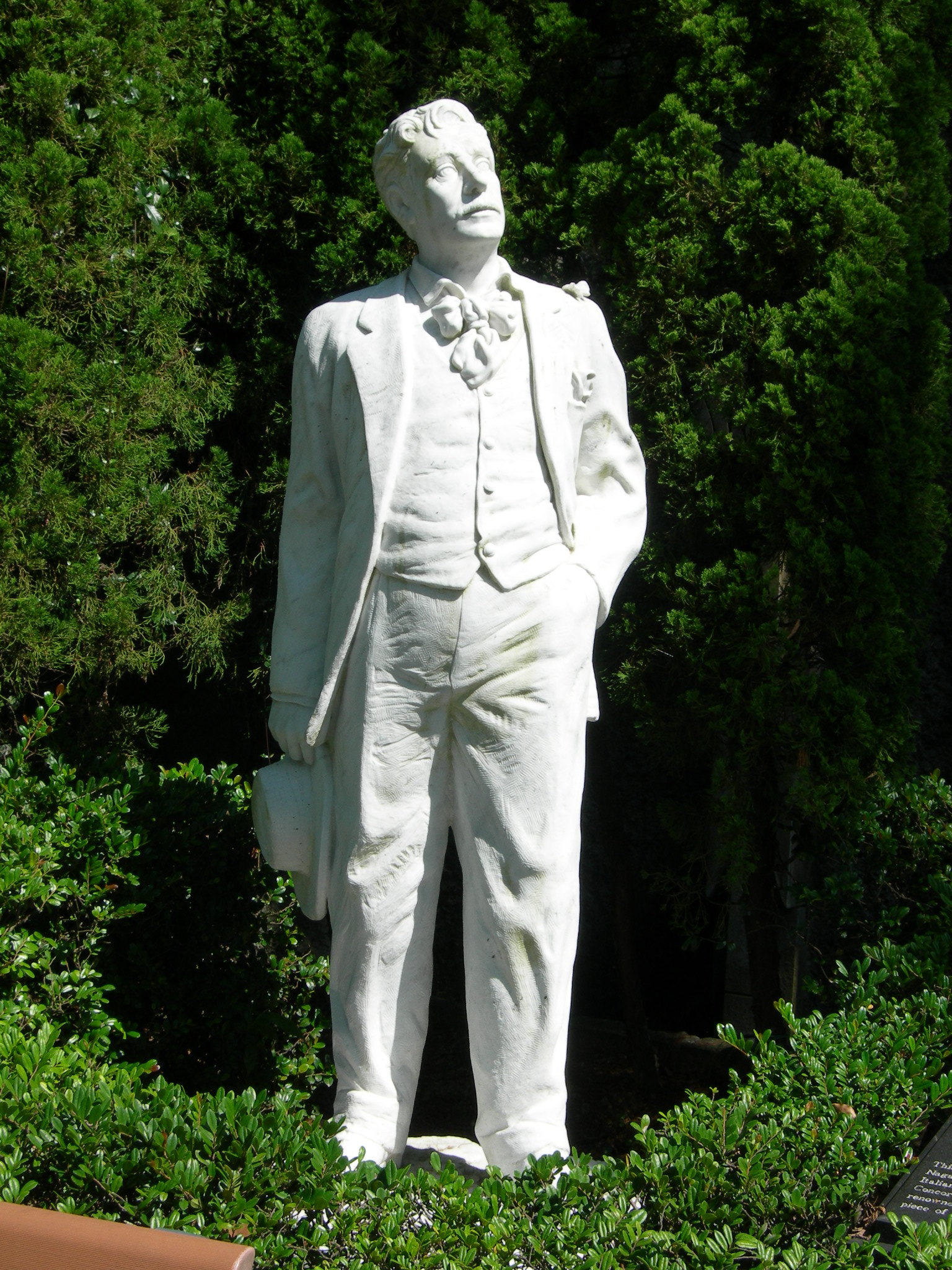 Statue of Giacomo Puccini, Glover Garden, Nagasaki, Nagasaki.